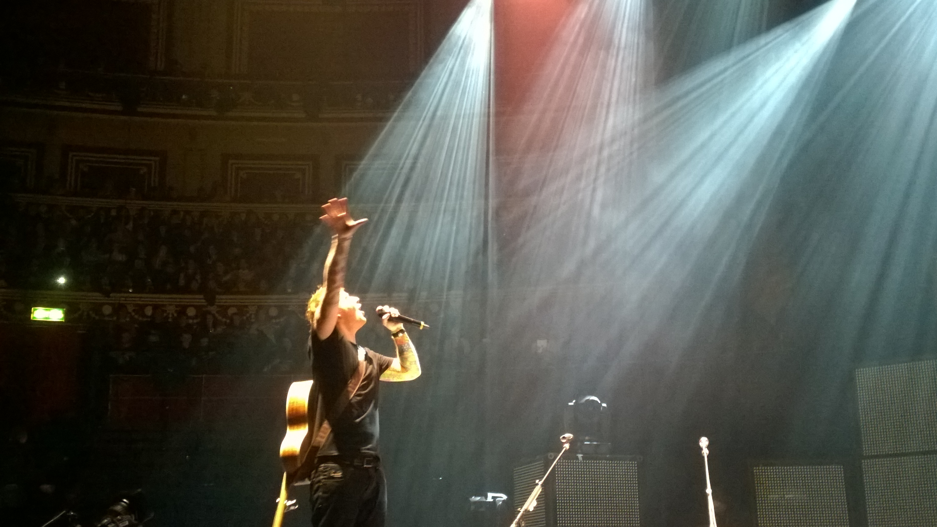 Ed Sheeran, Royal Albert Hall